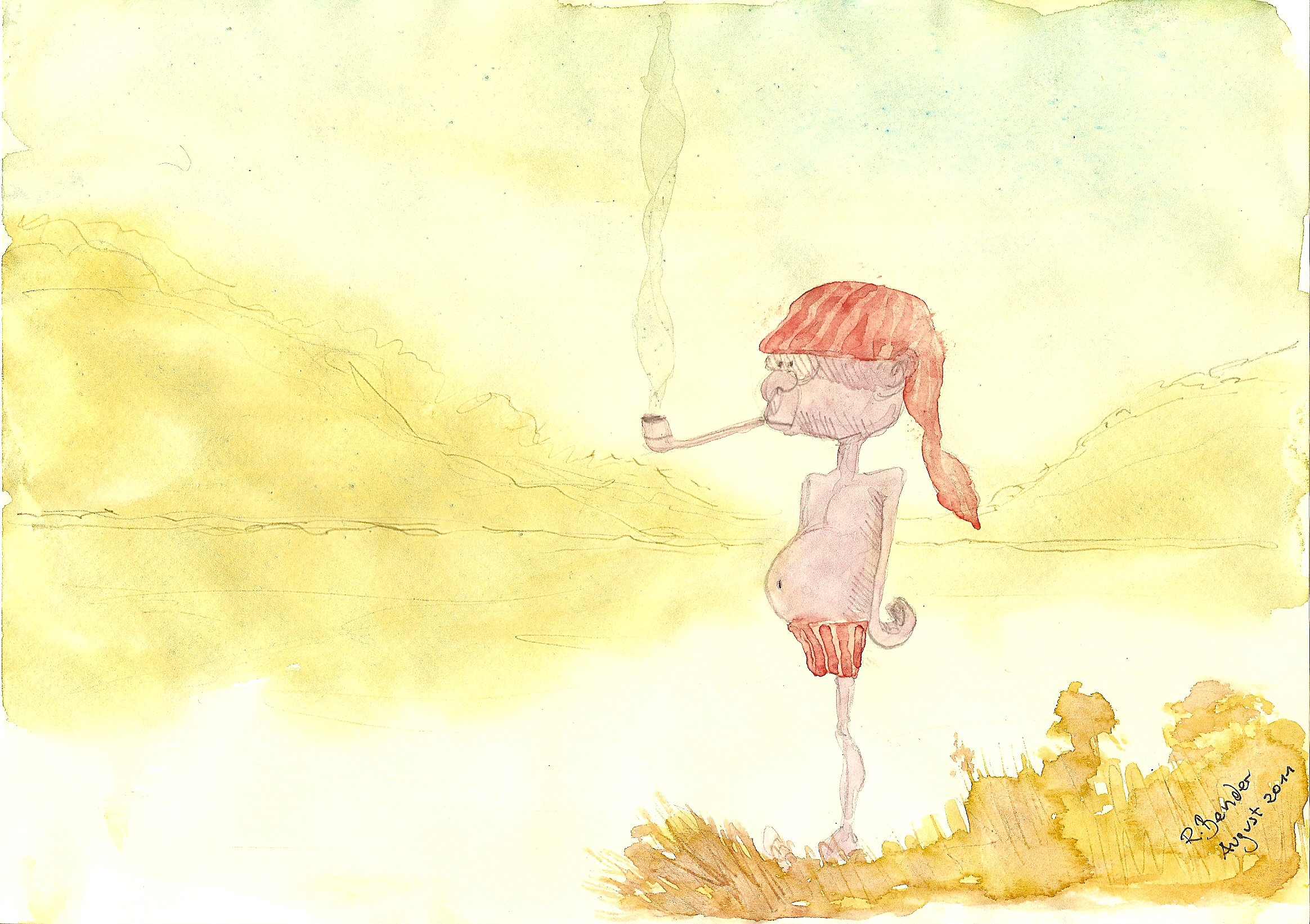 It is believed that Saci Pererê is unable to cross even small streams